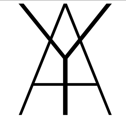 leibl